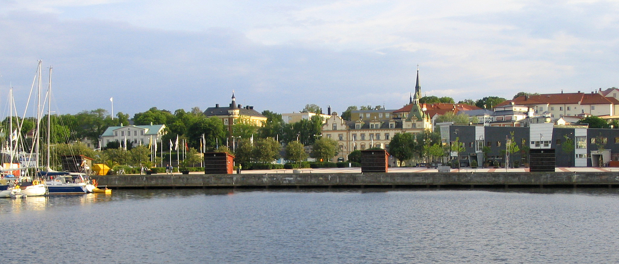 The city of Oskarshamn in Sweden, Europe.